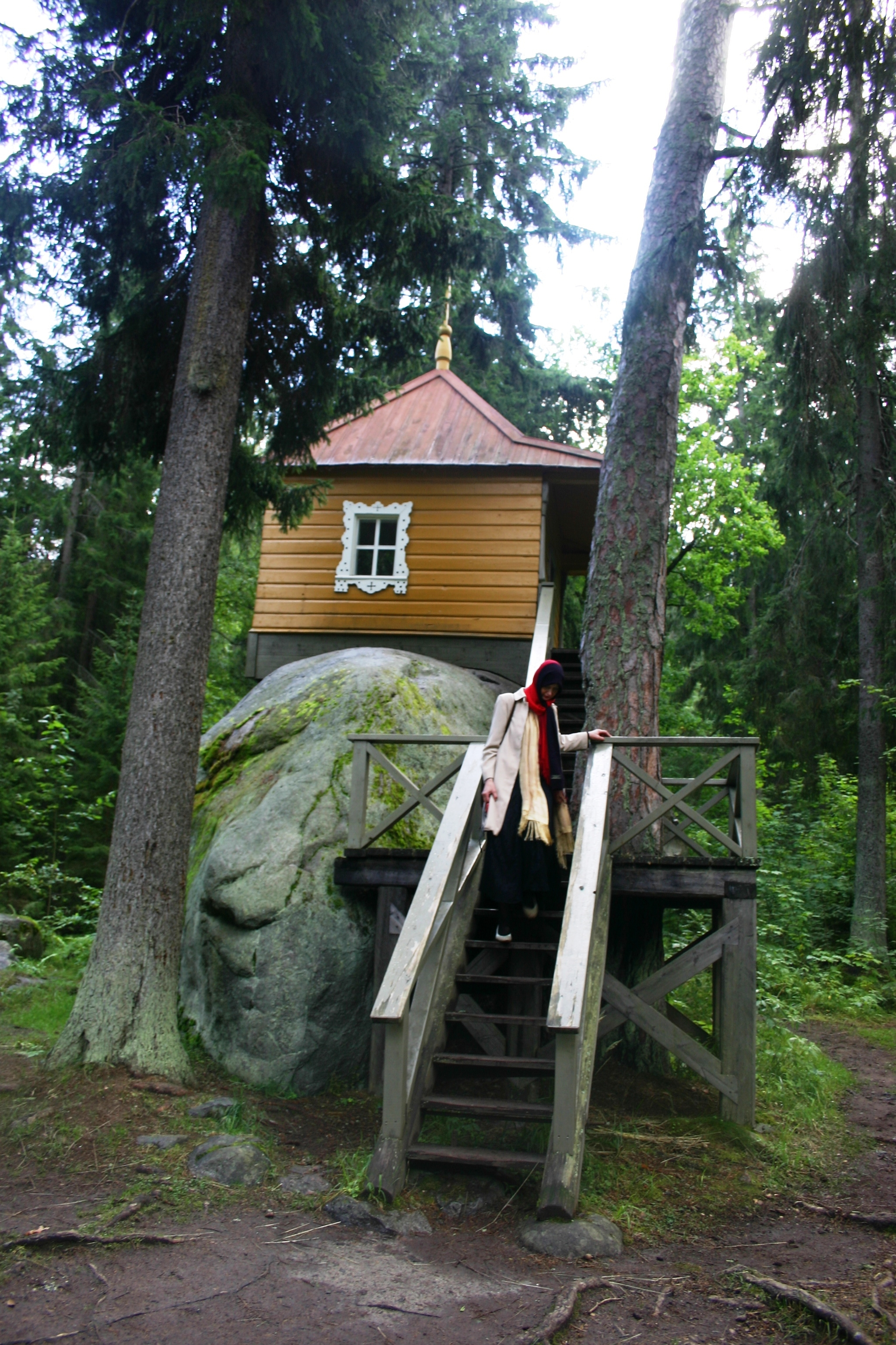 The Horse Stone and a chapel on top of the stone in Konevets Island in Lake Ladoga, Russia